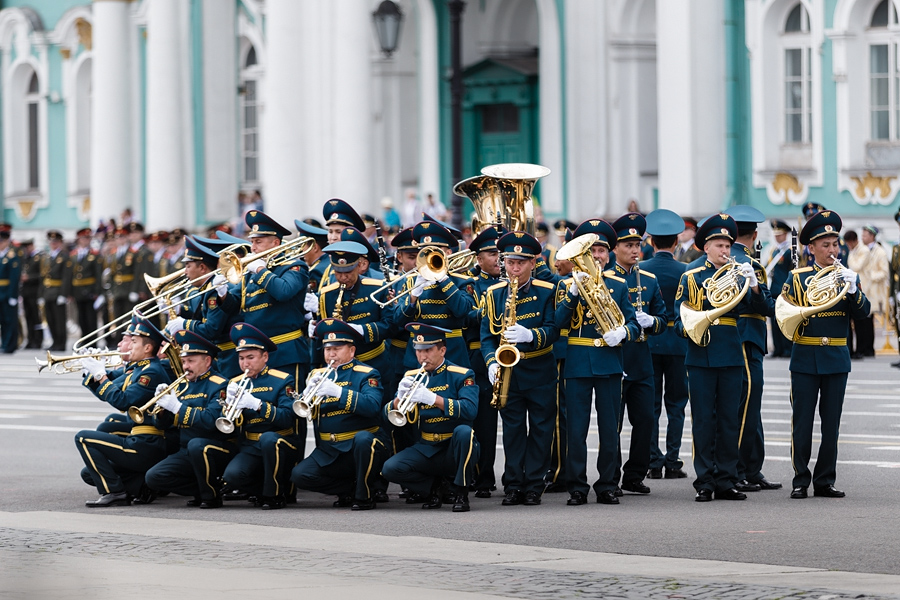 A Kyrgyz Military Band performing during II Military Music Festival of the Armed Forces of the SCO member-states.